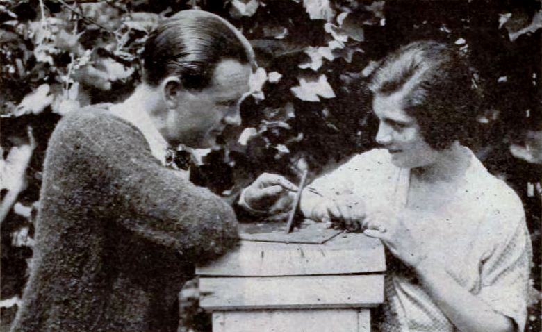 Actors Owen Moore and Katherine Perry pass time during their honeymoon looking at a sundial in Douglaston, Long Island, New York, on page 65 of the September 17, 1921 Exhibitors Herald.